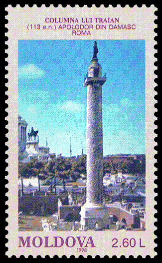 Stamp of Moldova